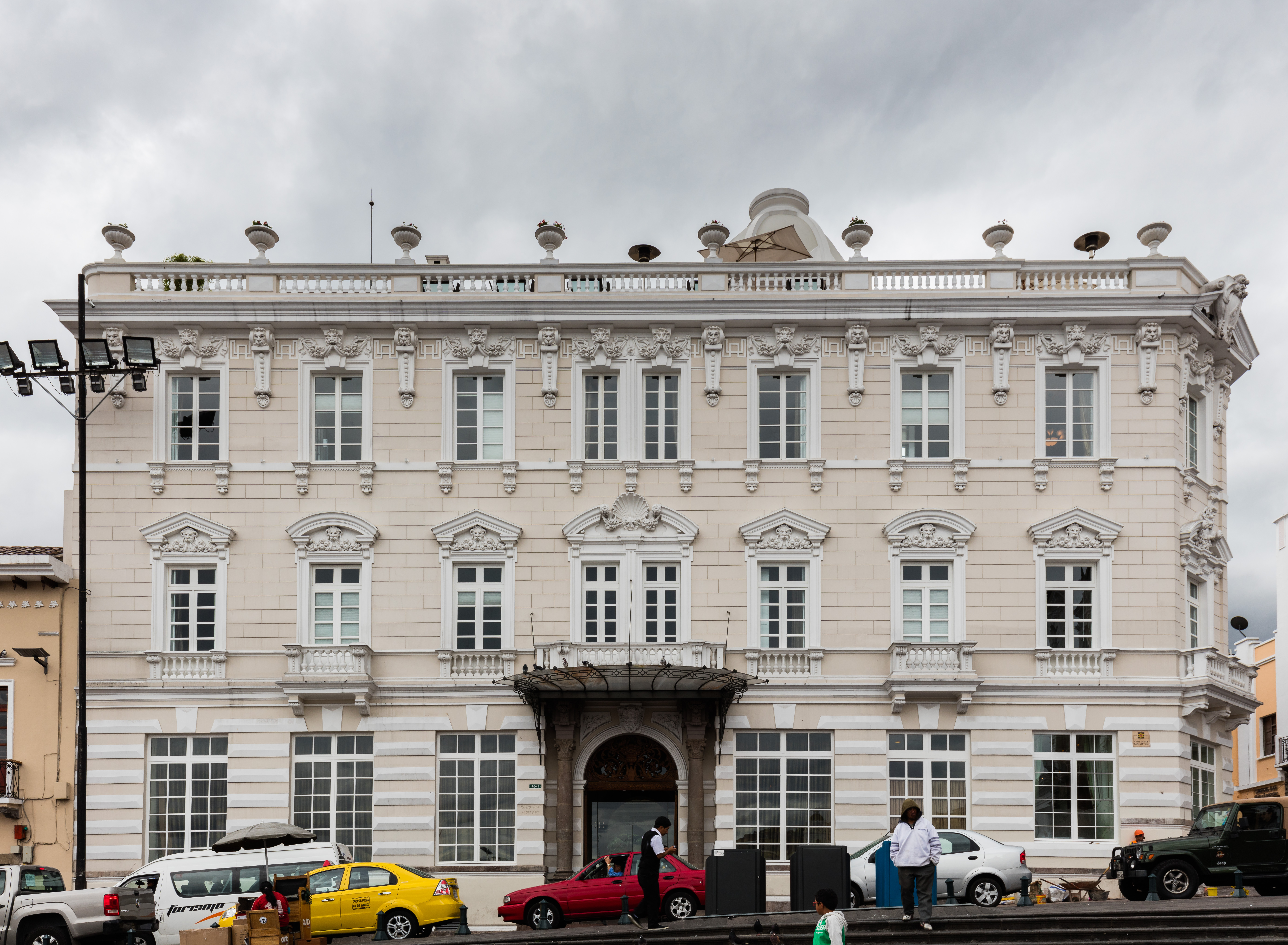 Gangotena Palace, Quito, Ecuador